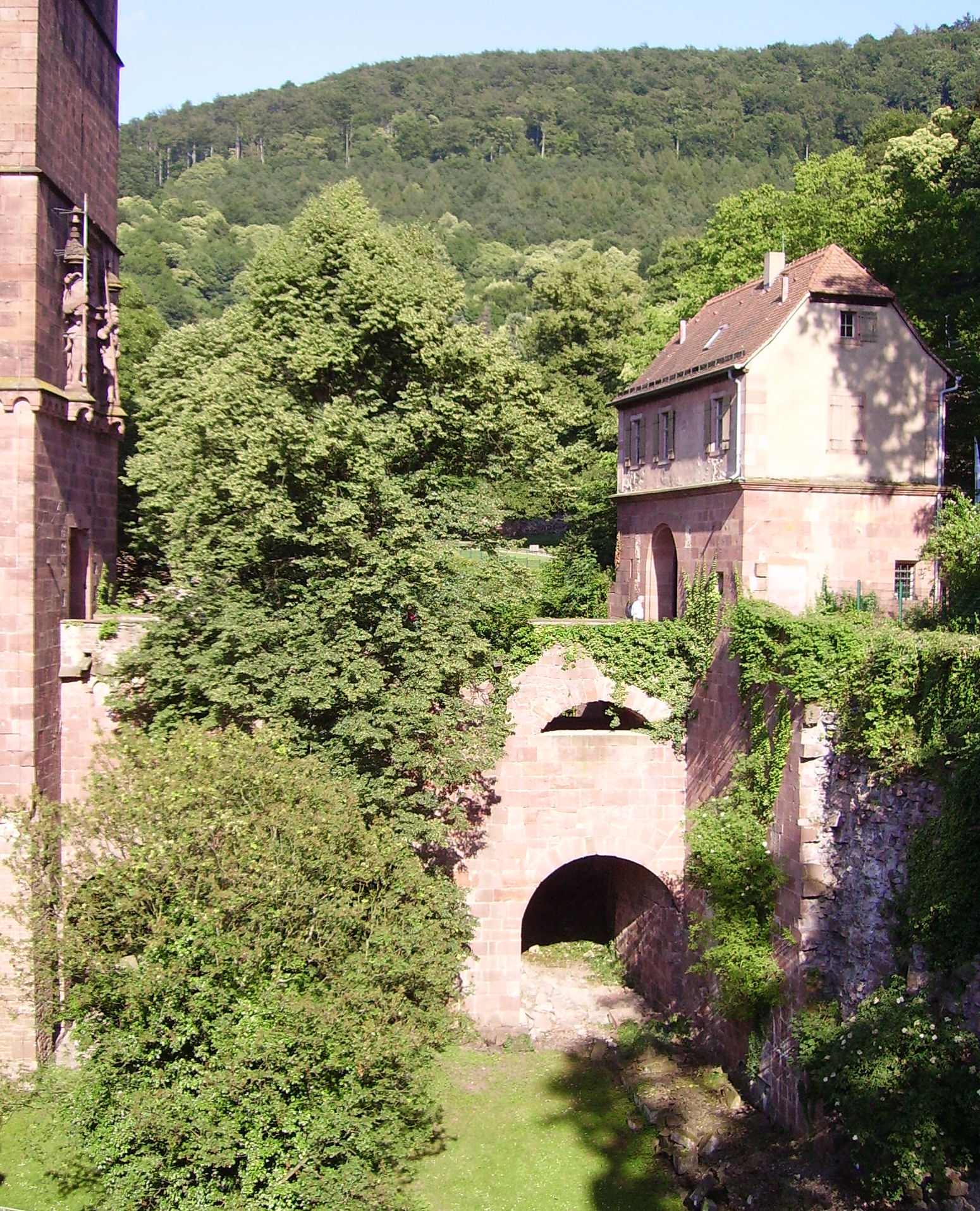 old bridge of Heidelberg castle